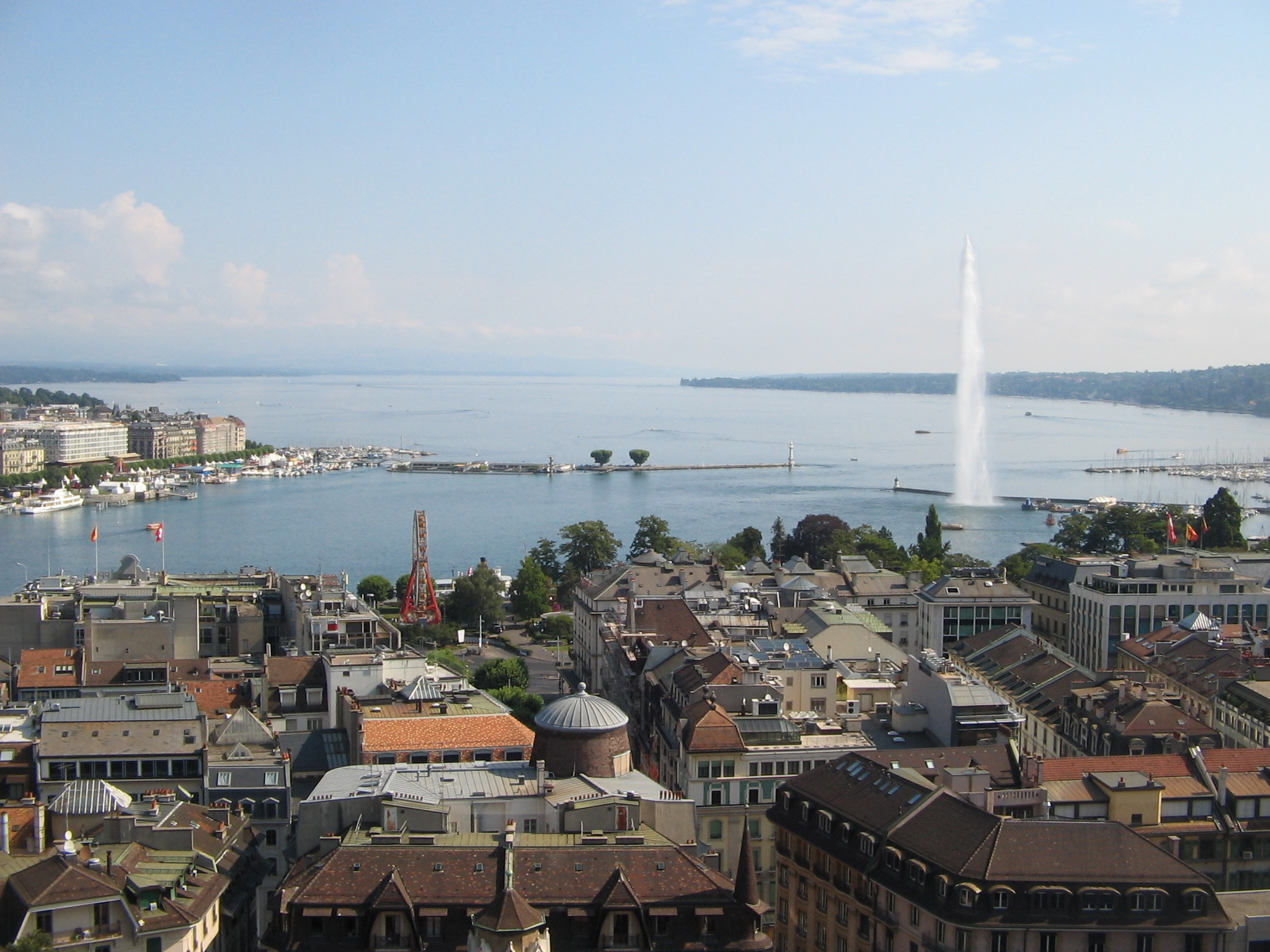 The Lake Geneva and its jet d'eau. Picture taken from the top of the cathedral of Geneva